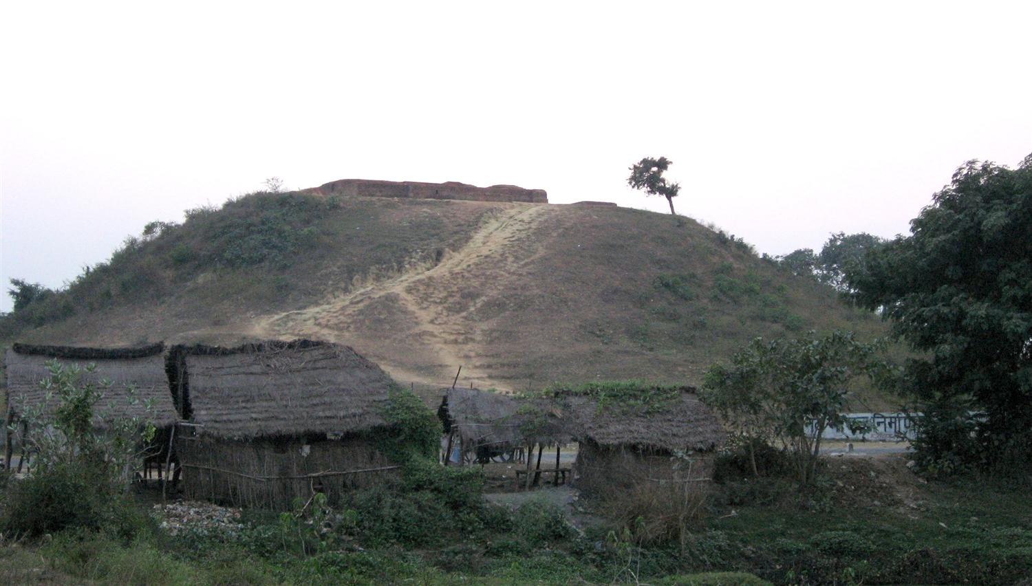 Stupa of the Twin Miracle, performed by Buddha in Sravasti (India). locally known as Orajhar.